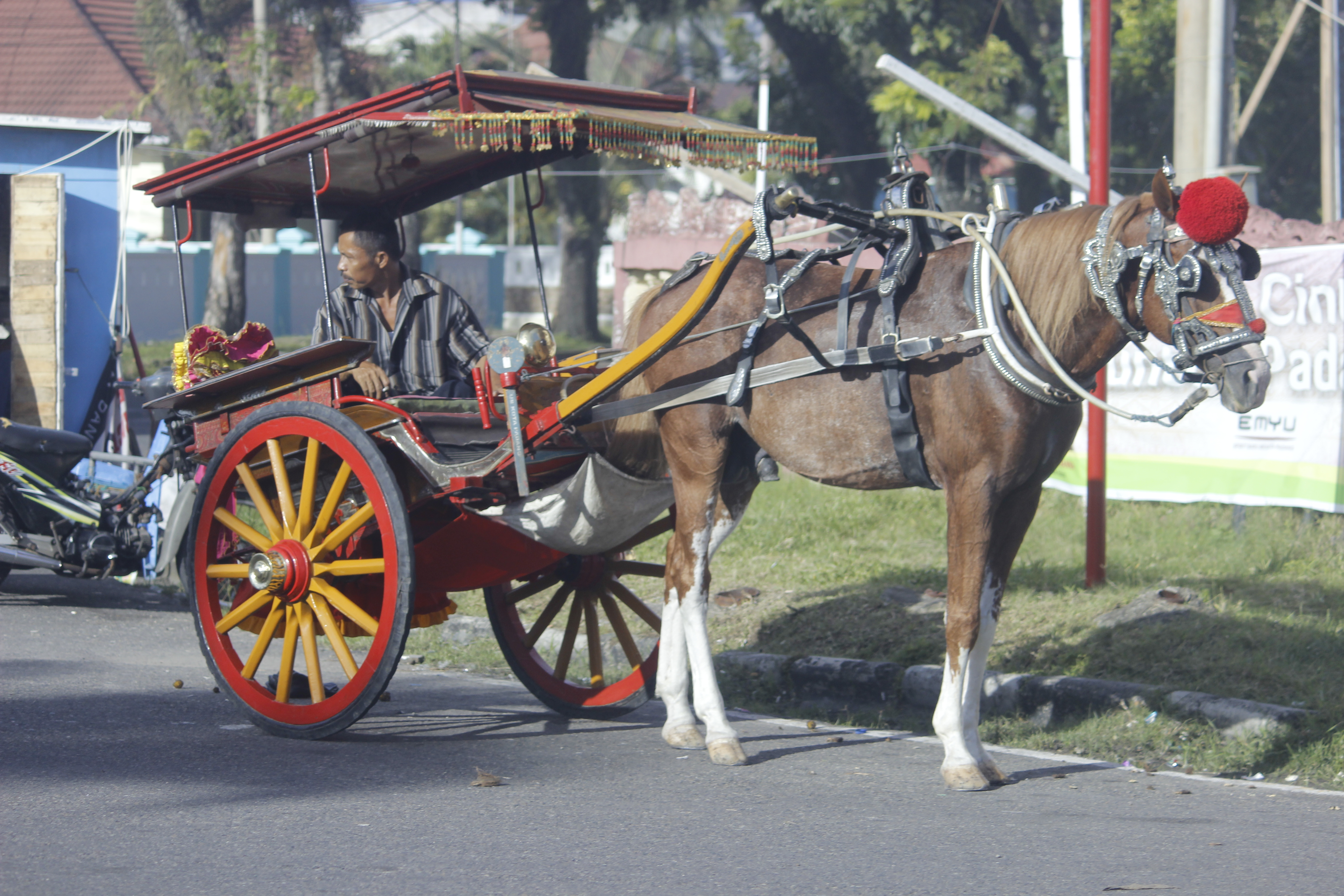 Bendi bakudo (traditional Minangkabau horse-drawn cart) in front of Padang Cultural Park. This type of transport can be easily found in Padang, Bukittinggi, and other part of West Sumatra.